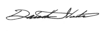 Daisaku Ikeda signature